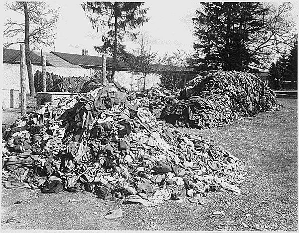 This pile of clothes belonged to prisoners of the Dachau concentration camp in Germany, liberated by troops of the U.S. Seventh Army. Slave laborers were compelled to strip before they were killed.